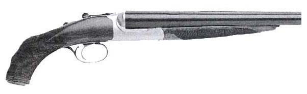 Weapon made from a shotgun